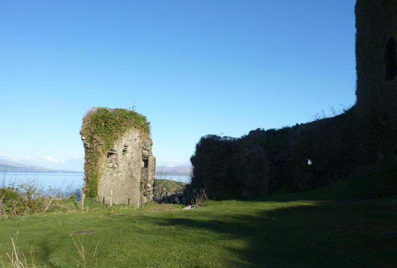 Dunollie Castle, Oban, Argyll and Bute, Scotland. Courtyard looking northwest.